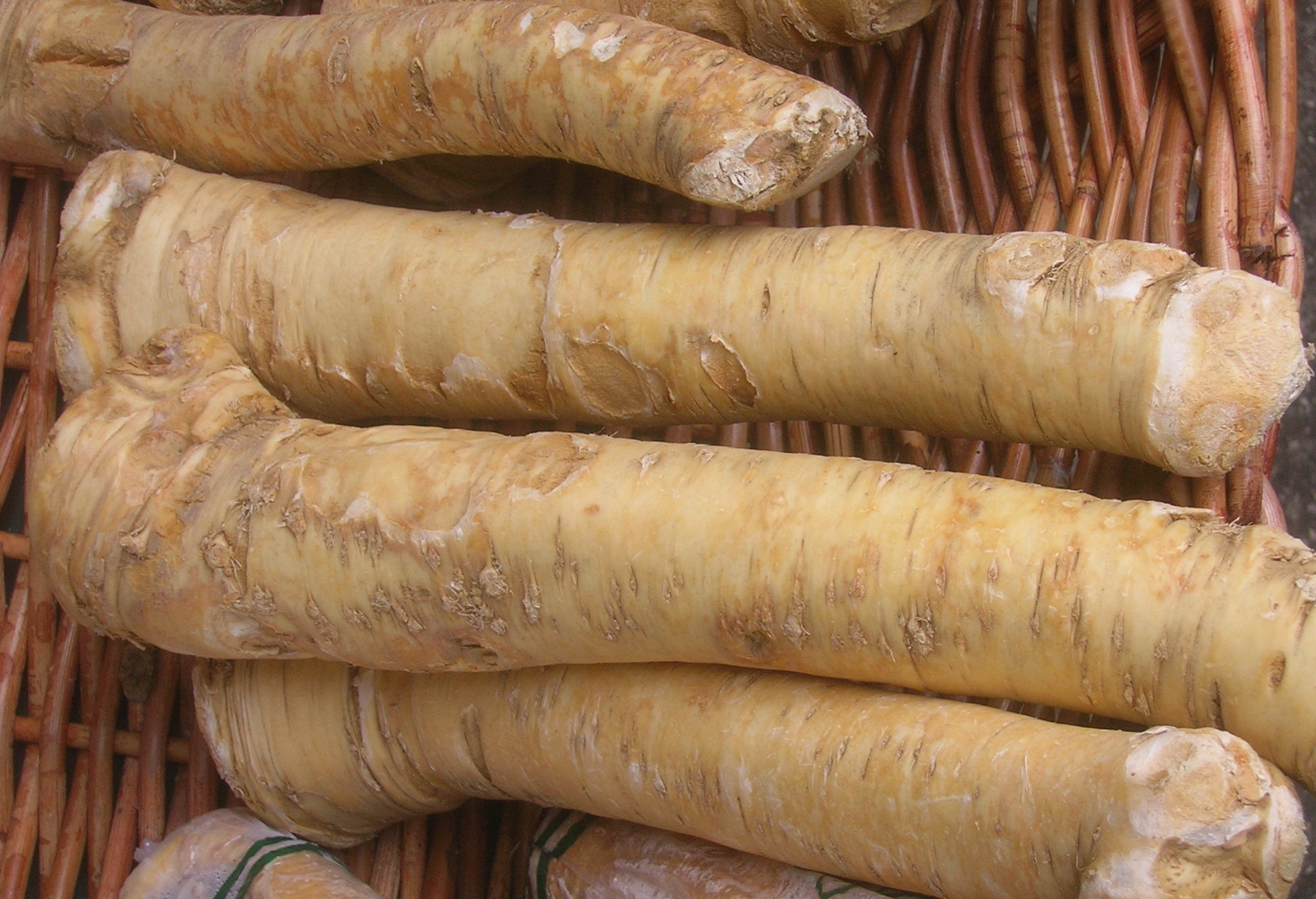 Horseradish (Armoracia rusticana) at a fruit and veg stall at the Naschmarkt in Vienna, Austria